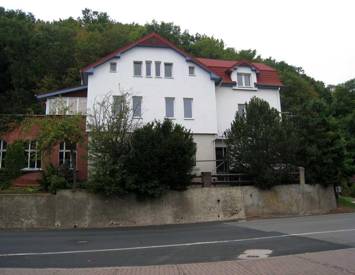 The Haus Hoßfeld in Philipsthal, Hesse. The inner German border ran through the middle of the building; the change in the asphalt in front of the building illustrates where the border once ran.